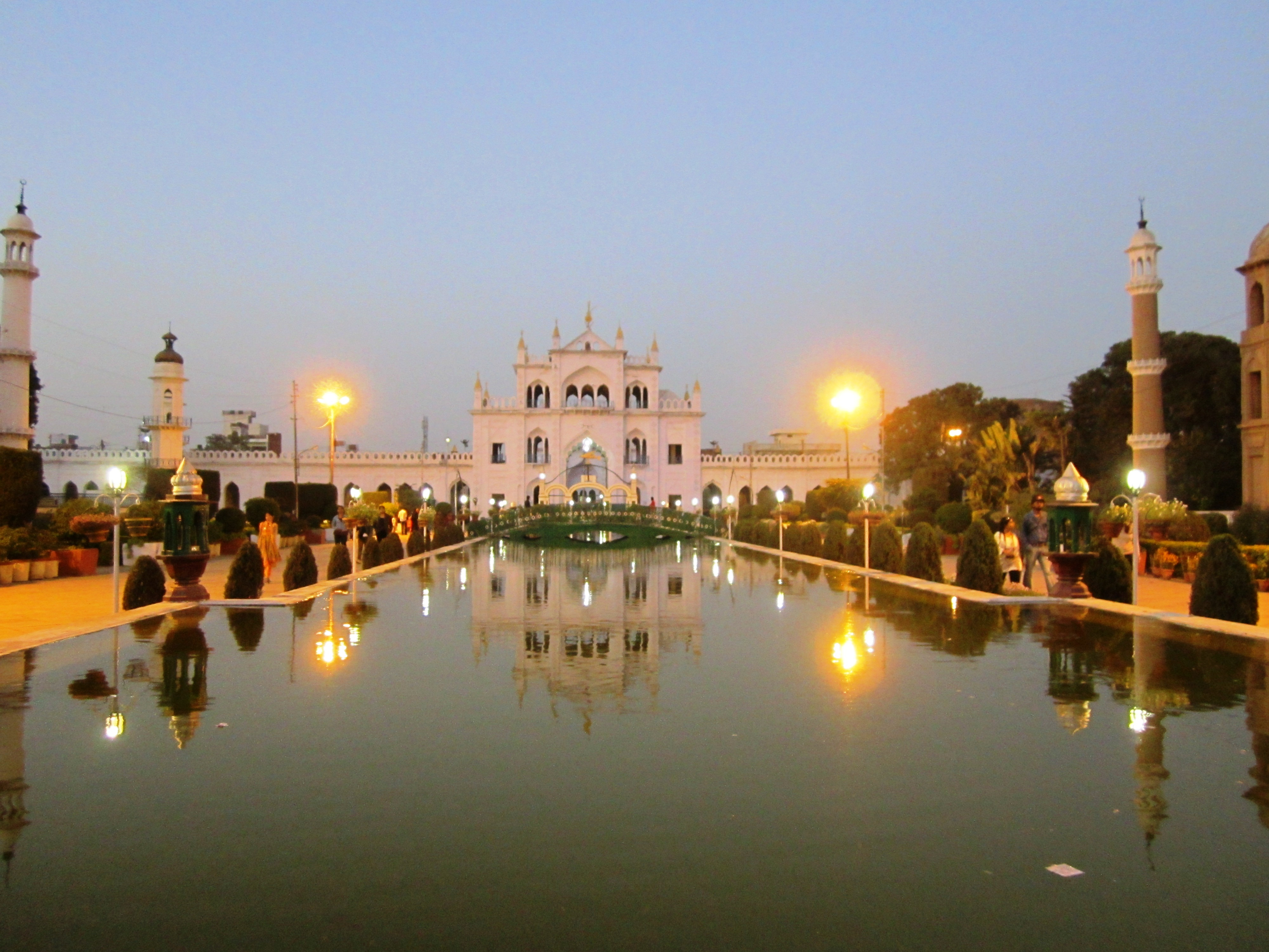 Inner view of the gate, Tomb of Mohammad Ali Shah, Lucknow